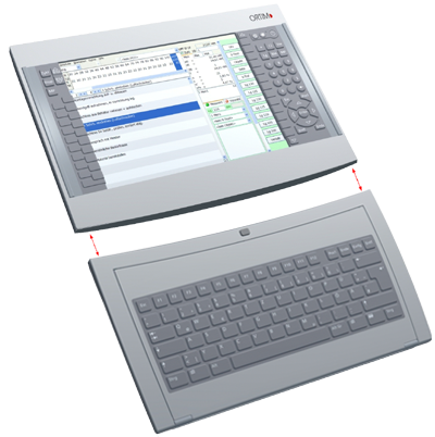 ORTIM a5 Time Study System